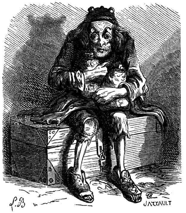 A depiction of Mammon from the 1863 edition of Jacques Collin de Plancy's work Dictionnaire Infernal, as illustrated by Louis Le Breton.